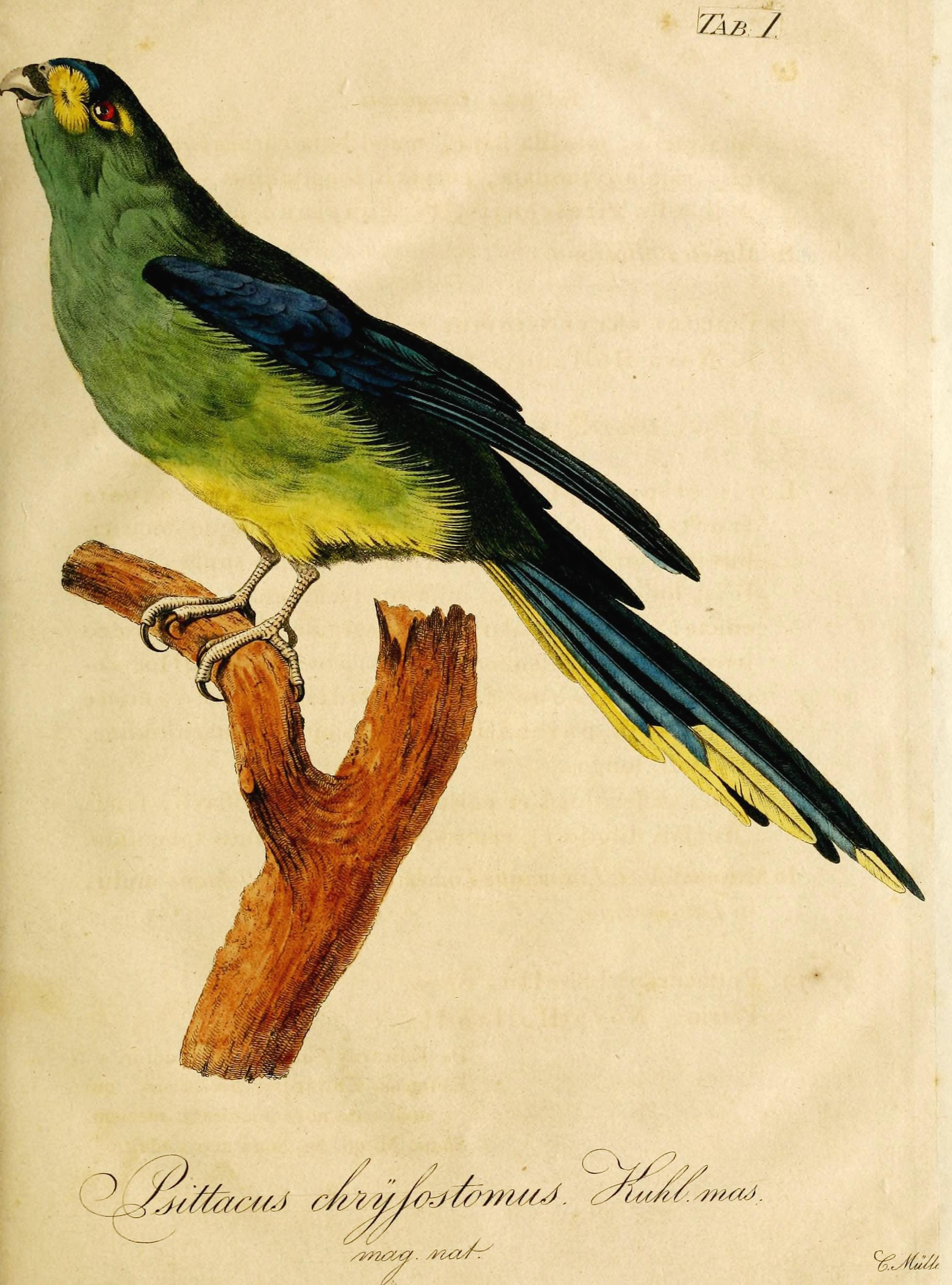 Feinsittich Psittacus chrysostomusa (Neophema chrysostoma) from Conspectus Psittacorum